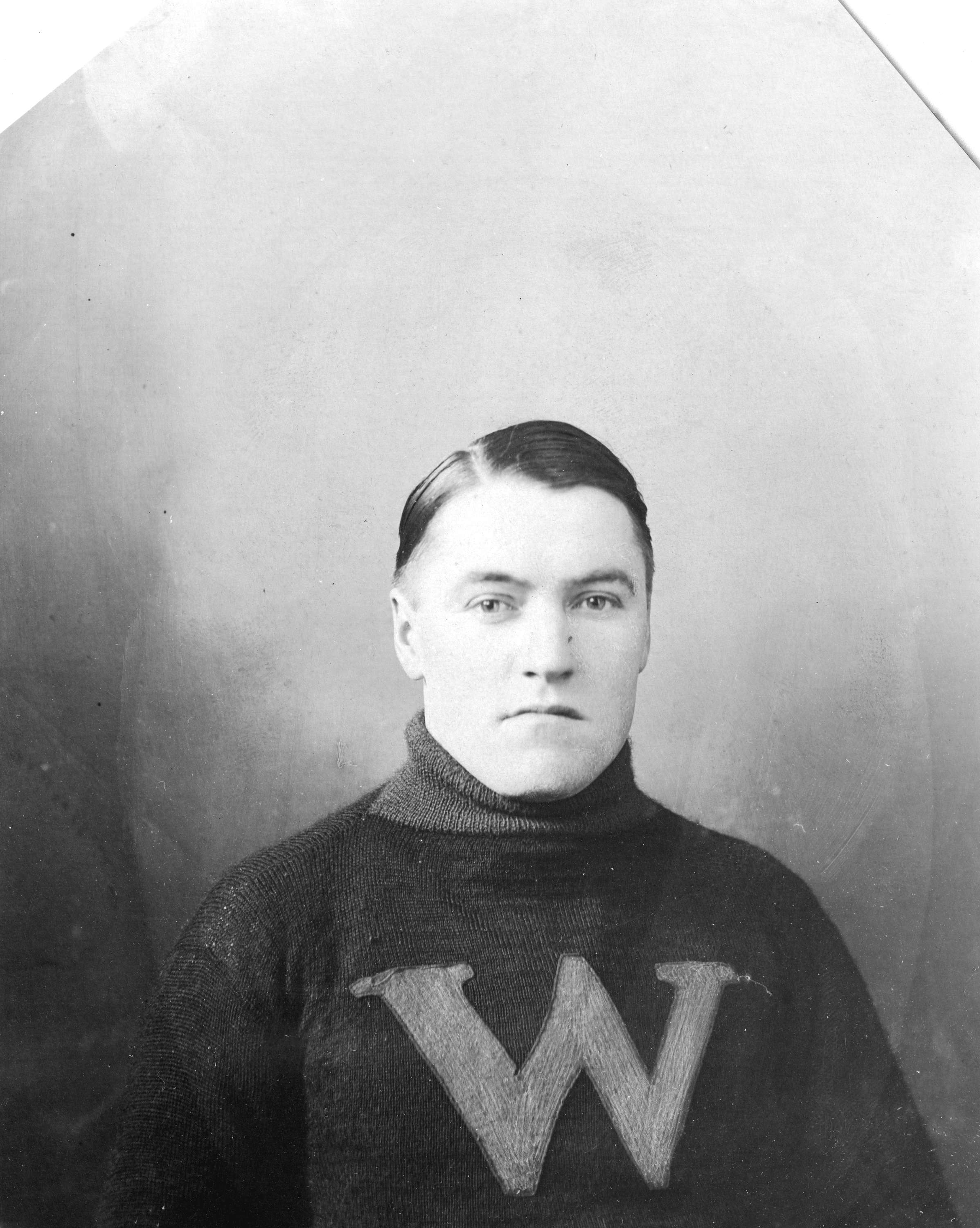 Photograph of ice hockey player George "Ike" Treherne, New Westminster Hockey Team Champions P.C.H.A.